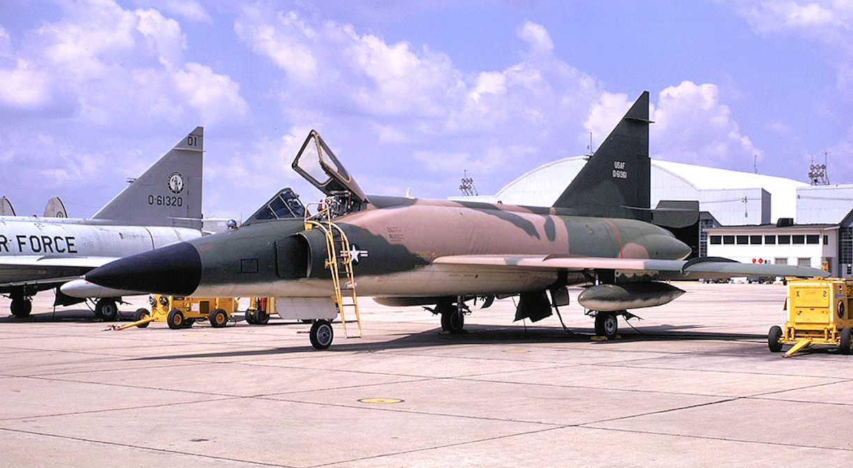 146th Fighter-Interceptor Squadron Convair F-102A-75-CO Delta Dagger 56-1361 in Vietnam War jungle camouflage motif. 1361 was retired to MASDC as FJ0219 Jun 2, 1971